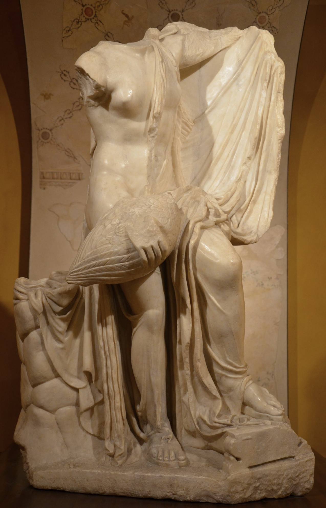 Leda and the swan statue group, 1st century AD, Archaeological Museum of Formia